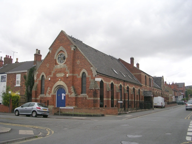 Former Independent Chapel - Newland Street West Built in 1867, it has now been converted into a surgery.